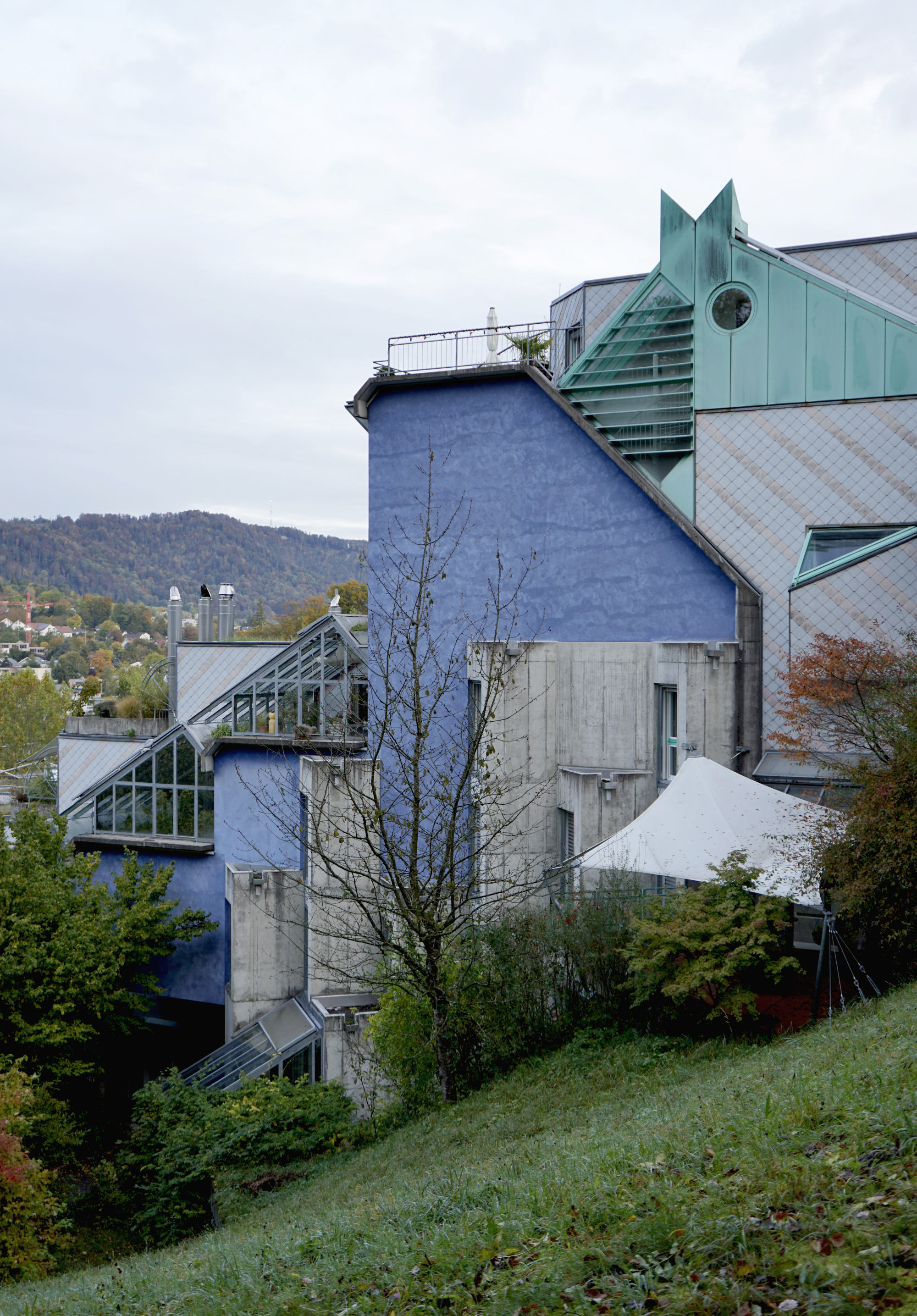 Siedlung Rütiwiese, Peter Thomann, Adliswil, 1975-1995